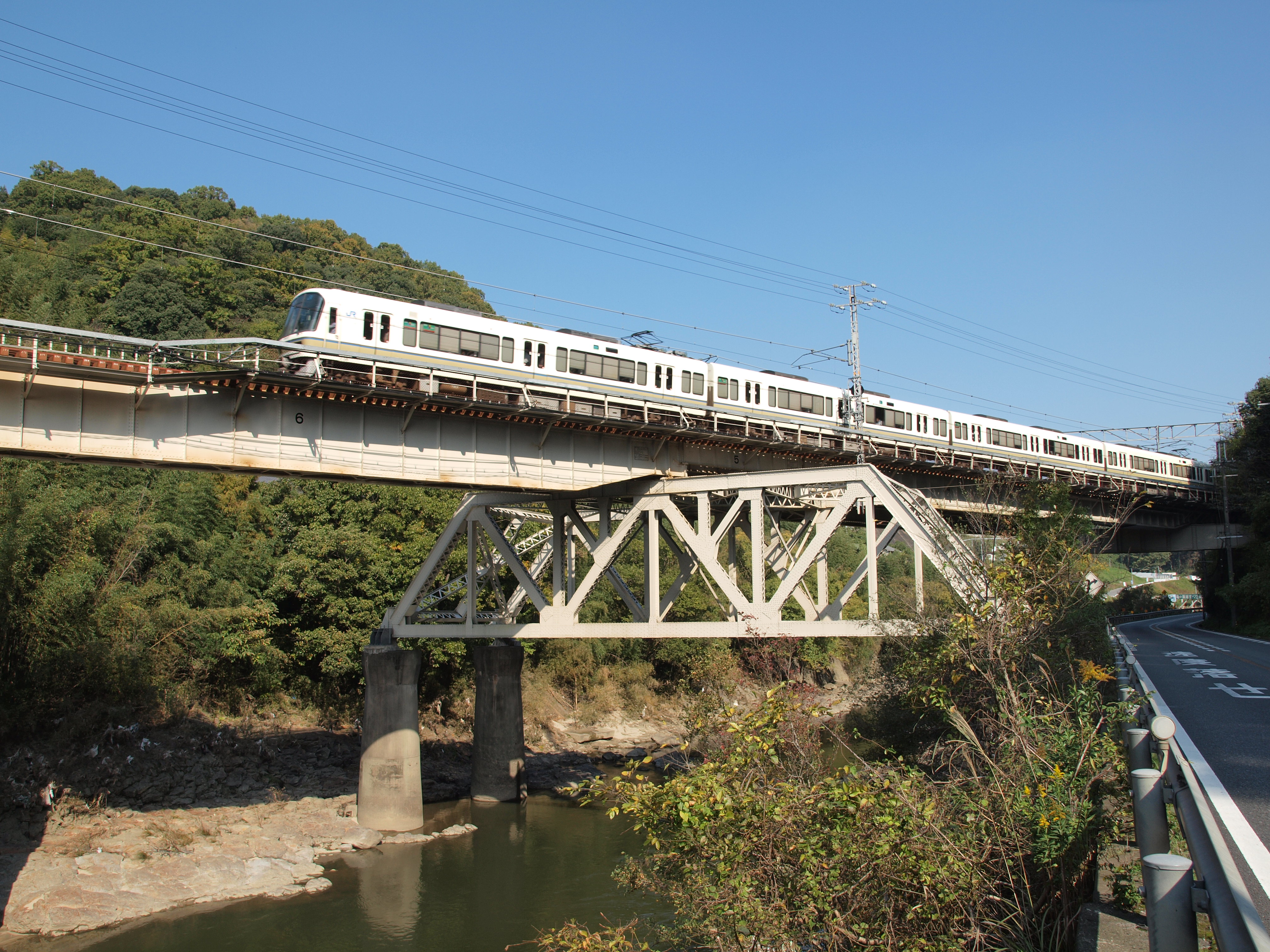 JR221 EMU on Dai-yon Yamatogawa kyoryo